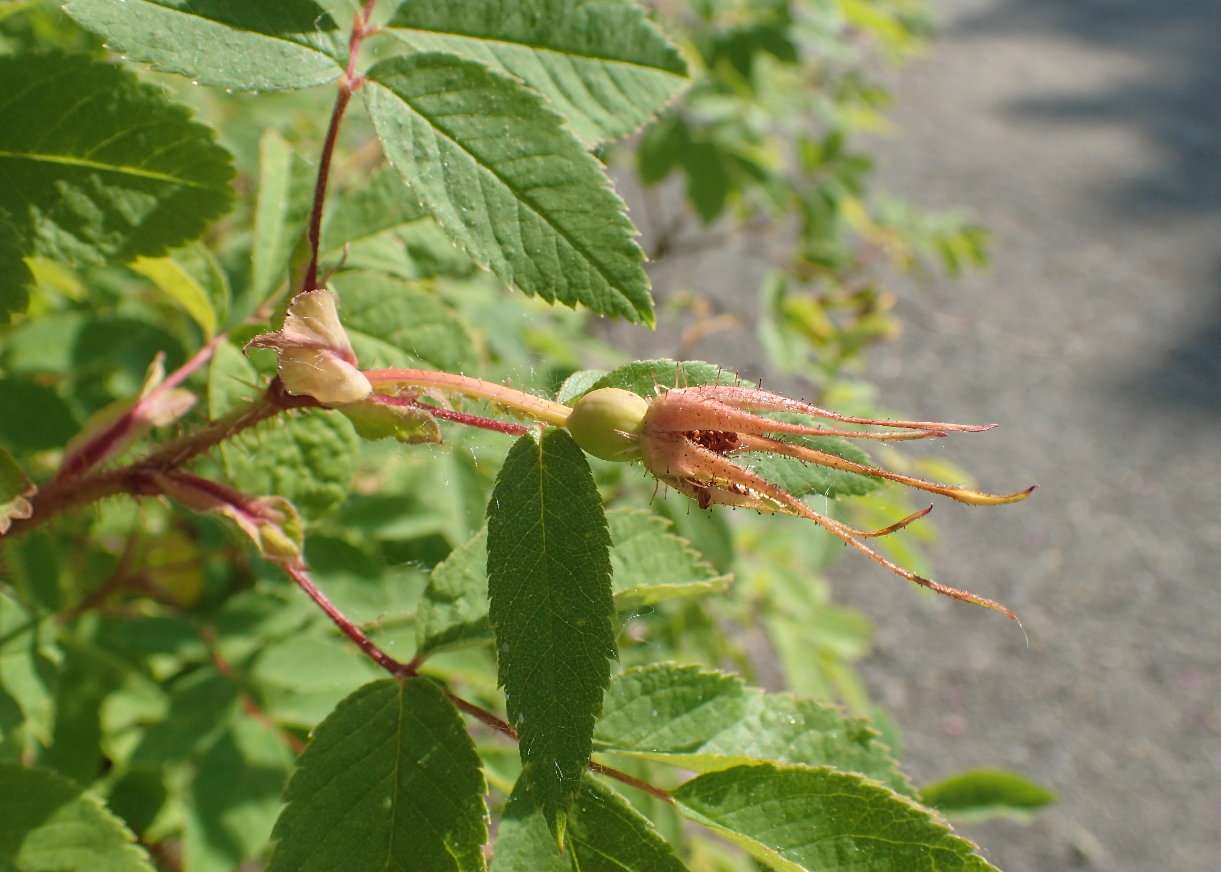 Rosa acicularis in the Rosarium Sangerhausen